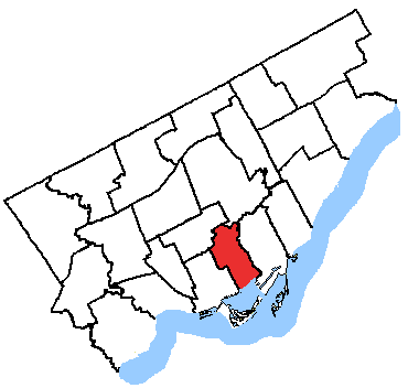 Map of the Toronto Centre electoral district. Based on Earl Andrew's :Image:Ct04.PNG and :Image:St04.PNG, created by SimonP.